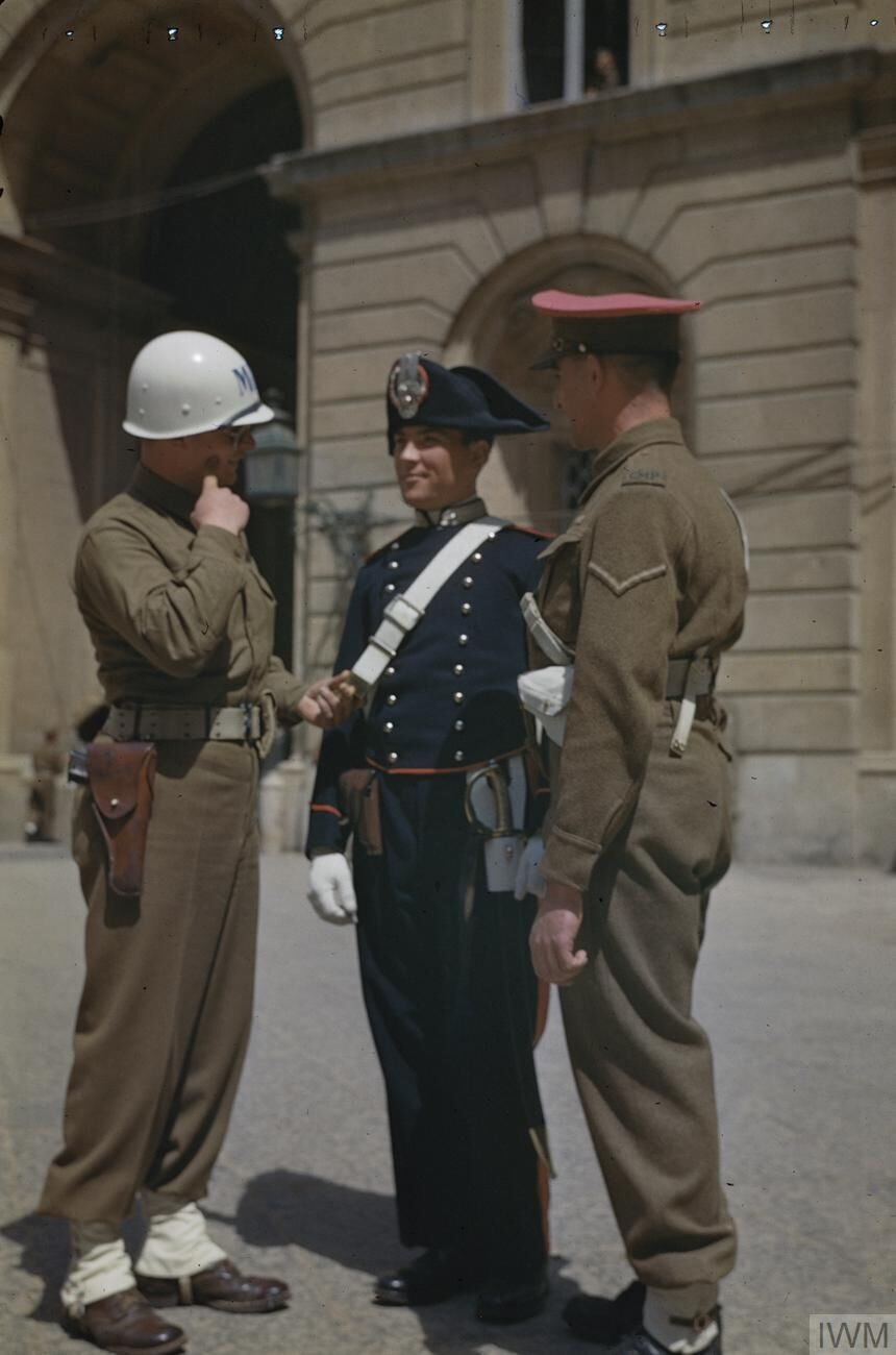 International Police in Caserta, Italy, 6 May 1944 Representatives of the British, Italian and American Militery police in the courtyard of the Caserta Palace in Italy. The three forces shared the duties of policing the 400-room palace. Left to right: an American Military Policeman, Corporal W M Wittner from New York City; an Italian Caribinieri, Bergamasco Liny from Torino, Italy; and a British Military Policeman, Lance Corporal B C Milner from Harrogate, Yorkshire.